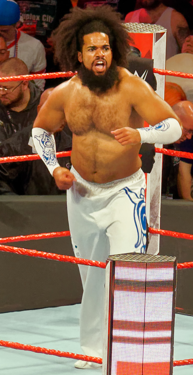 An image of wrestlers No Way Jose and John Skyler on an episode of WWE’s Monday Night Raw that took place on April 9, 2018.